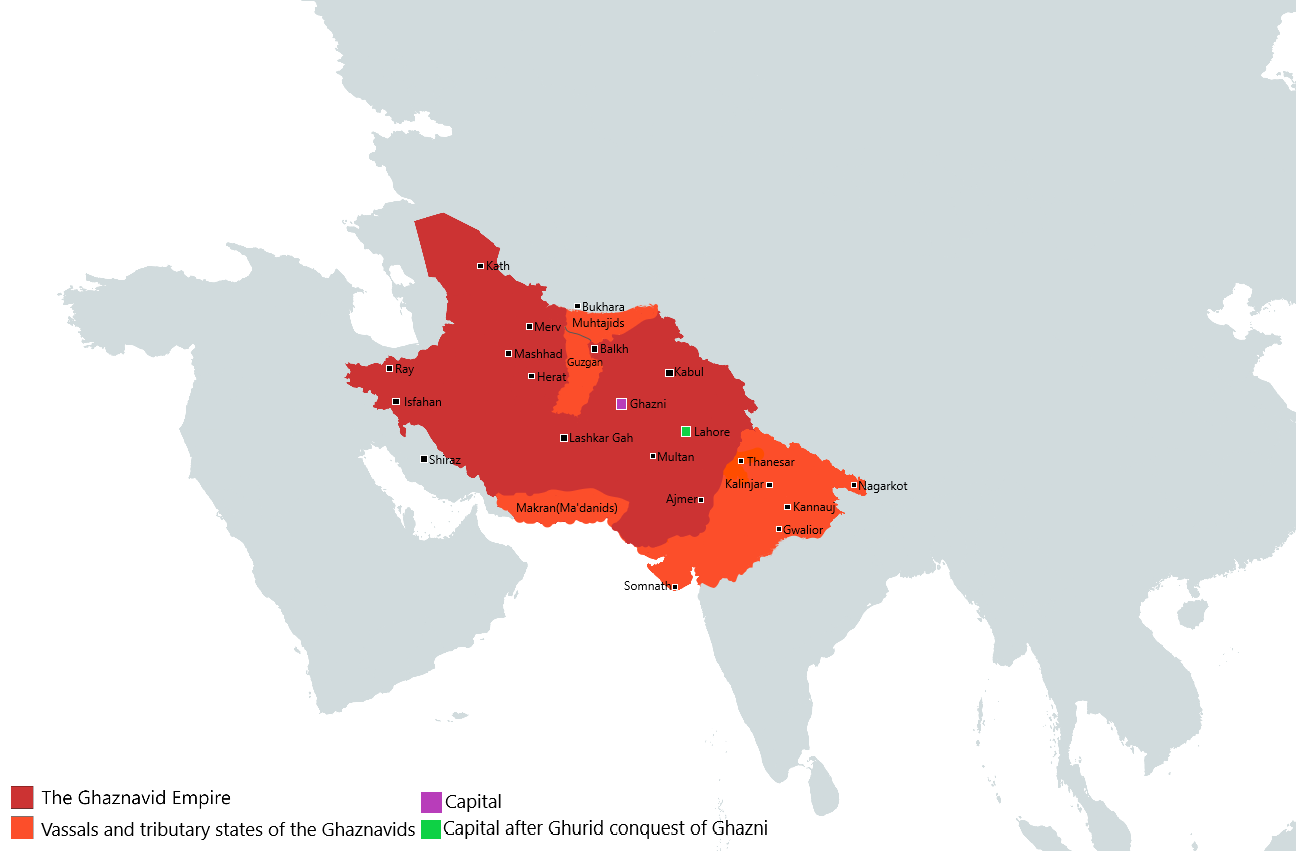 The Ghaznavid Empire with its vassals and tributaries.